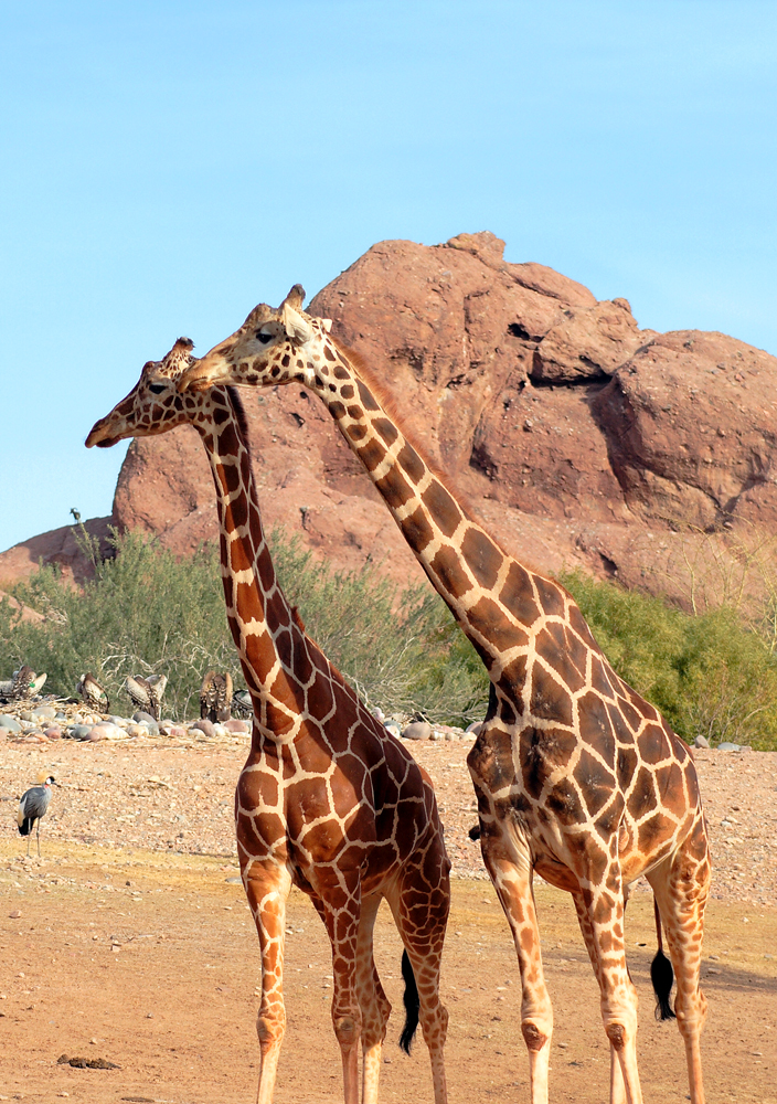 Reticulated Giraffes, Phoenix, Arizona, USA